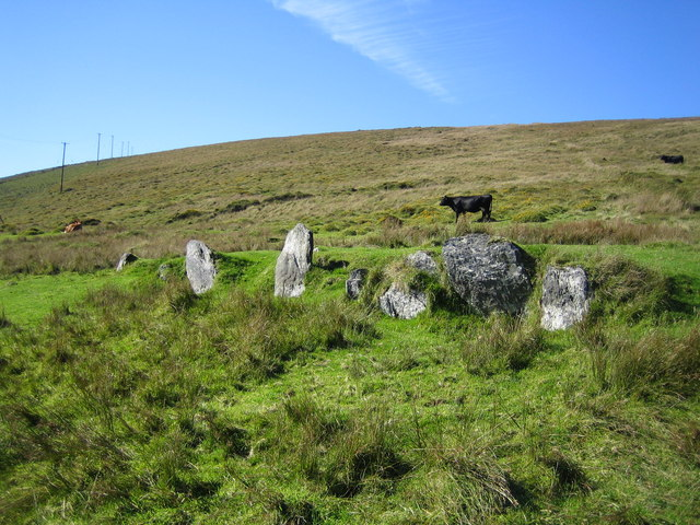 Oileán Baoi (Dursey Island): Standing stone Compared to other Irish standing stones this one is quite short and surrounded by several other stones on a terrace on the north side of the only road on the island. However it does warrant a mention on the OSI 1:50,000 scale map!